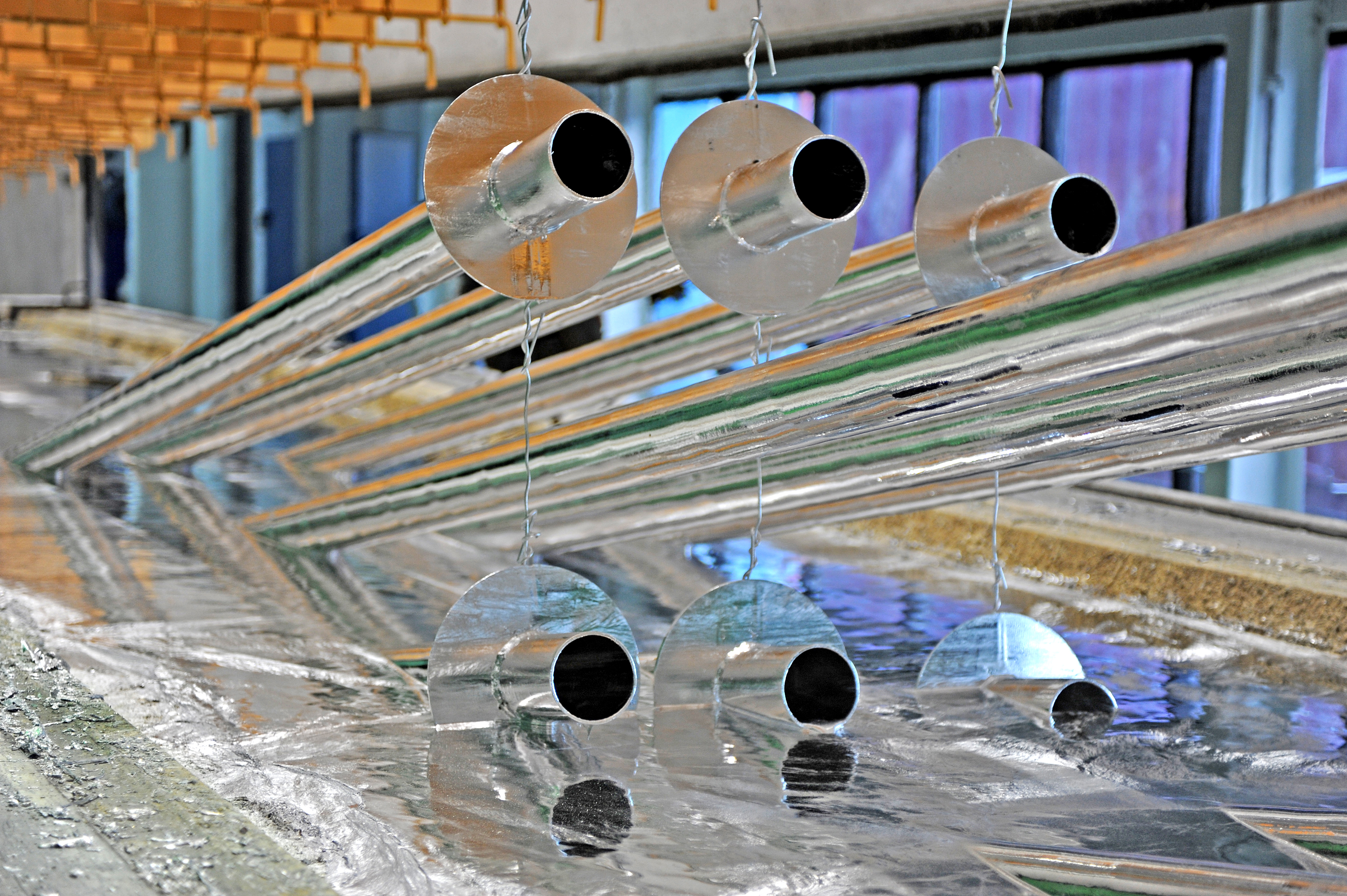 Hot-dip galvanization in Sumgayit Technologies Park